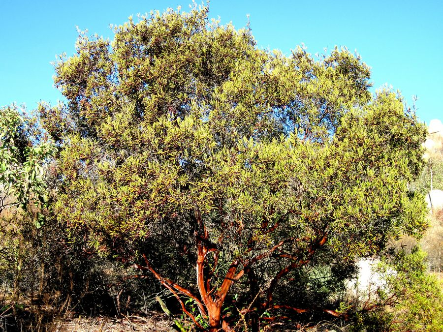 Mission Manzanita